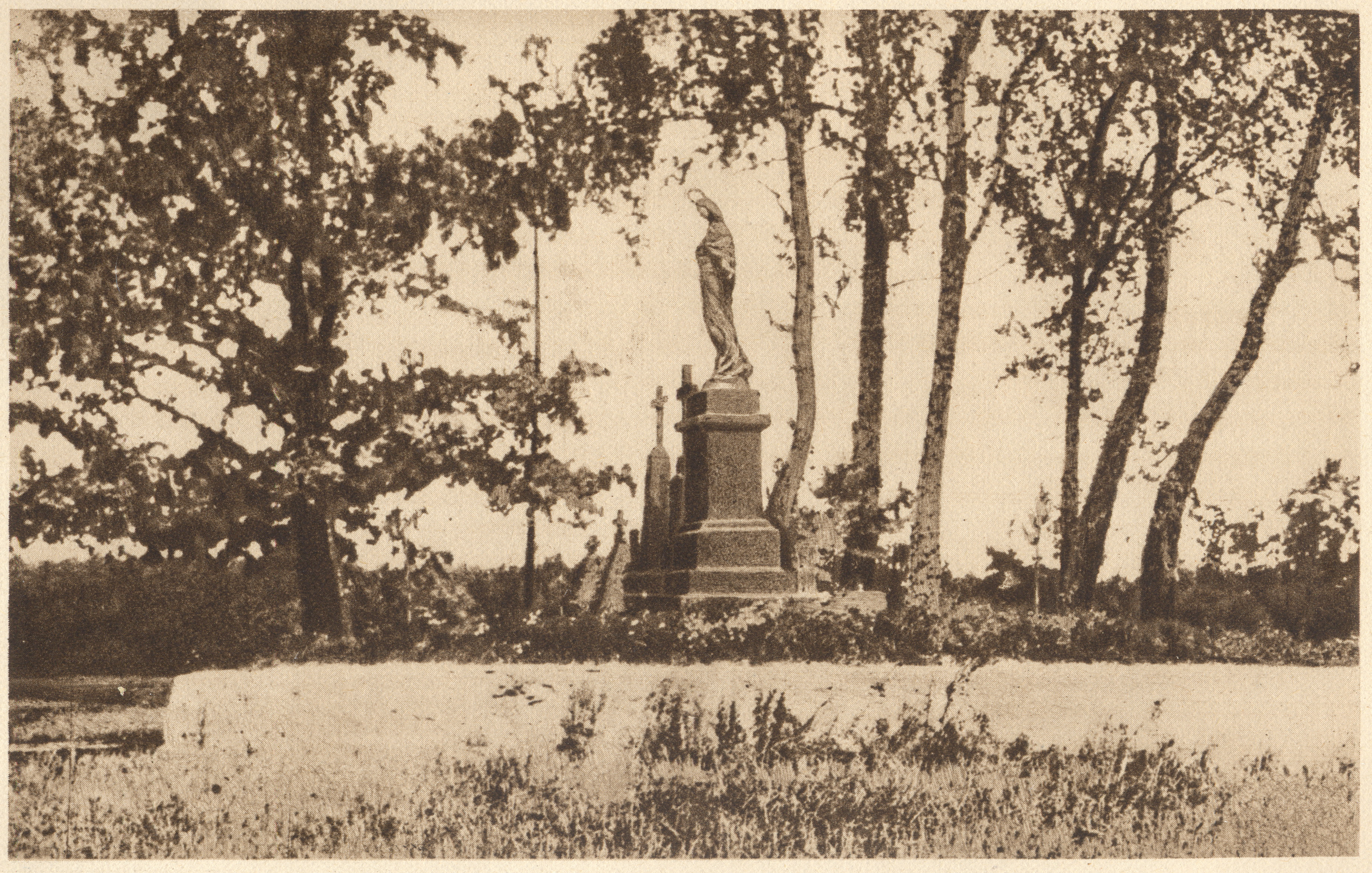 the Woynillowicz's family hill (cemetery) in Sawiczy manor (Sluck district, Russian empire), before 1901 AD